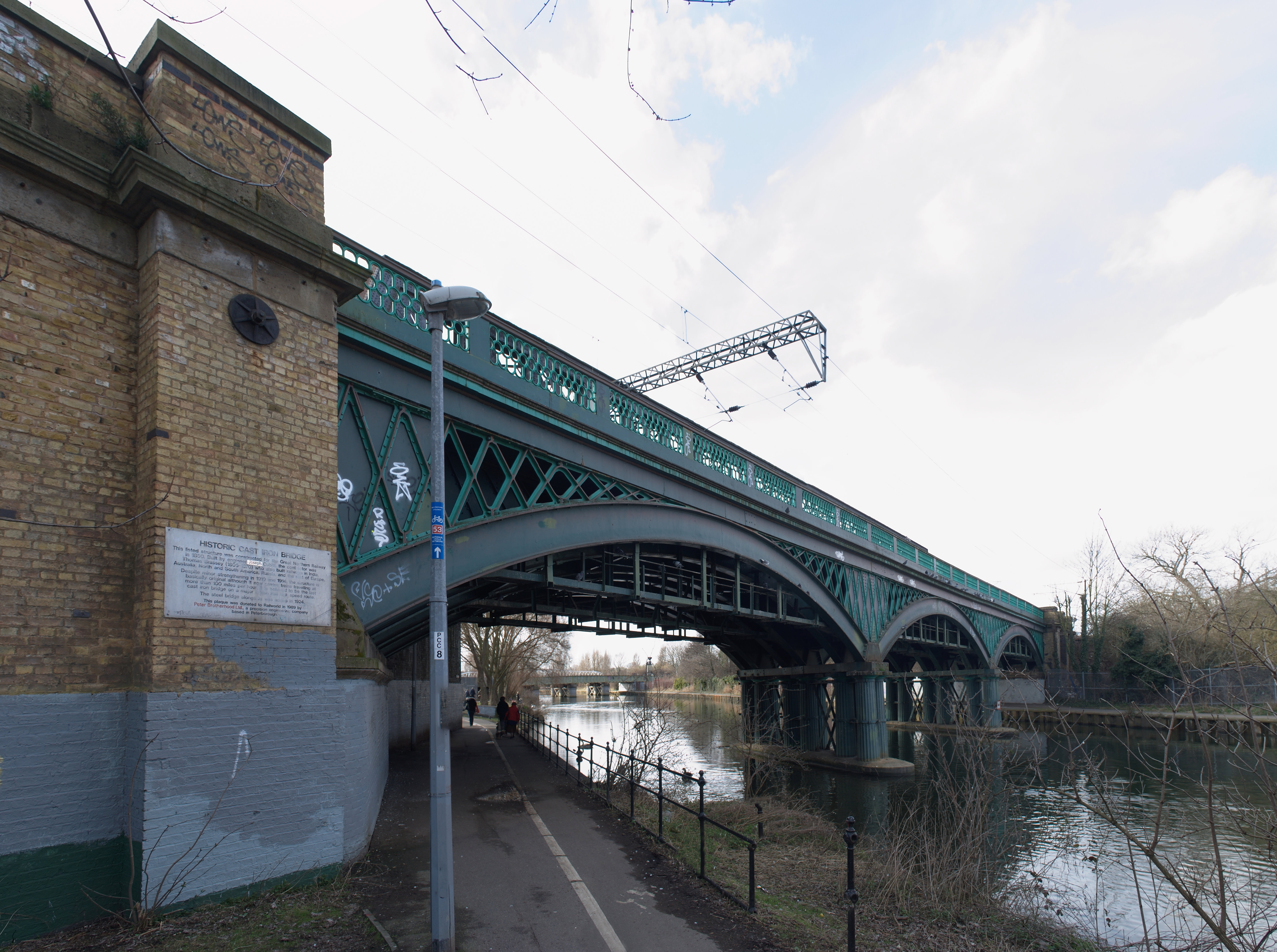 Iron railway bridge built in 1850, near Peterborough railway station